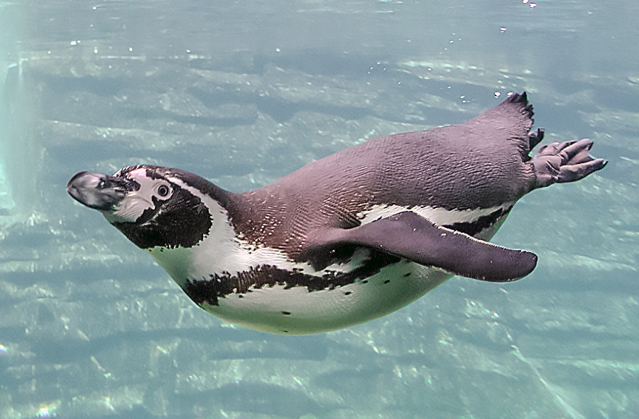 Humboldt Penguin swimming under water